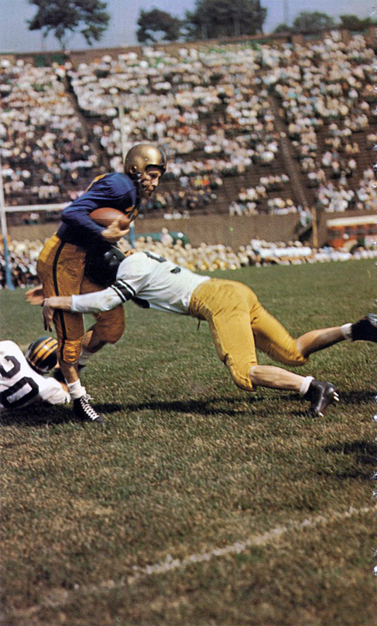 A Pitt football player carrying the ball in a 1955 game against Cal at Pitt Stadium, which the Panthers won 27-7.